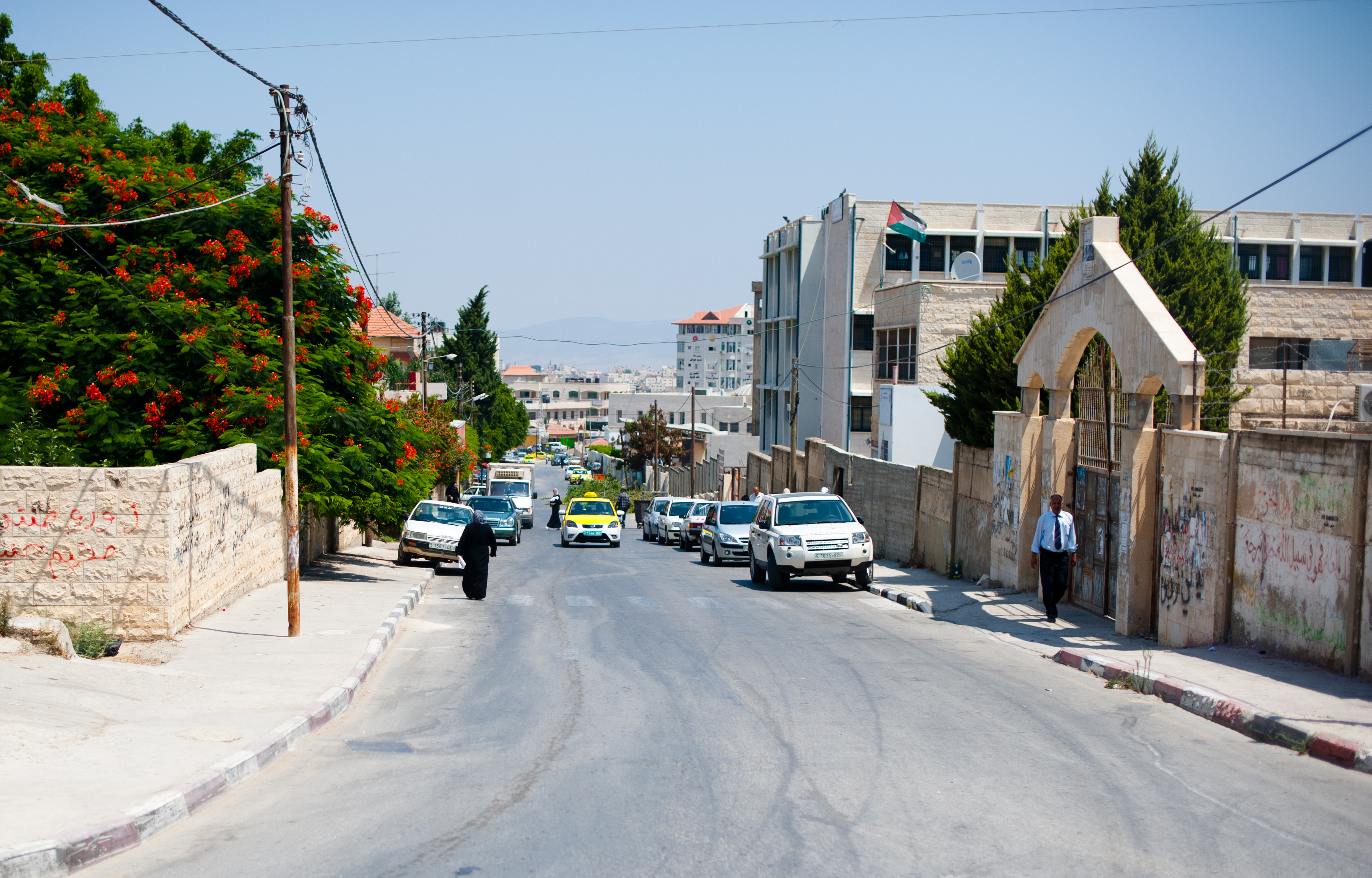 Jenin, West Bank, Palestine